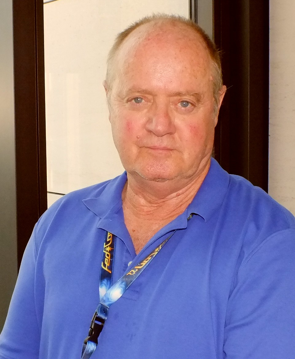 Robert O'Reilly at FedCon 2013. Permission was explicitly given for it use on Wikipedia